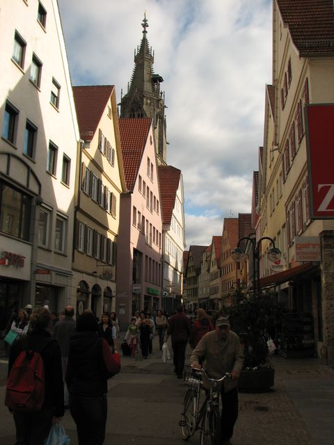 Reutlingen town centre nearby the Marienkirche church